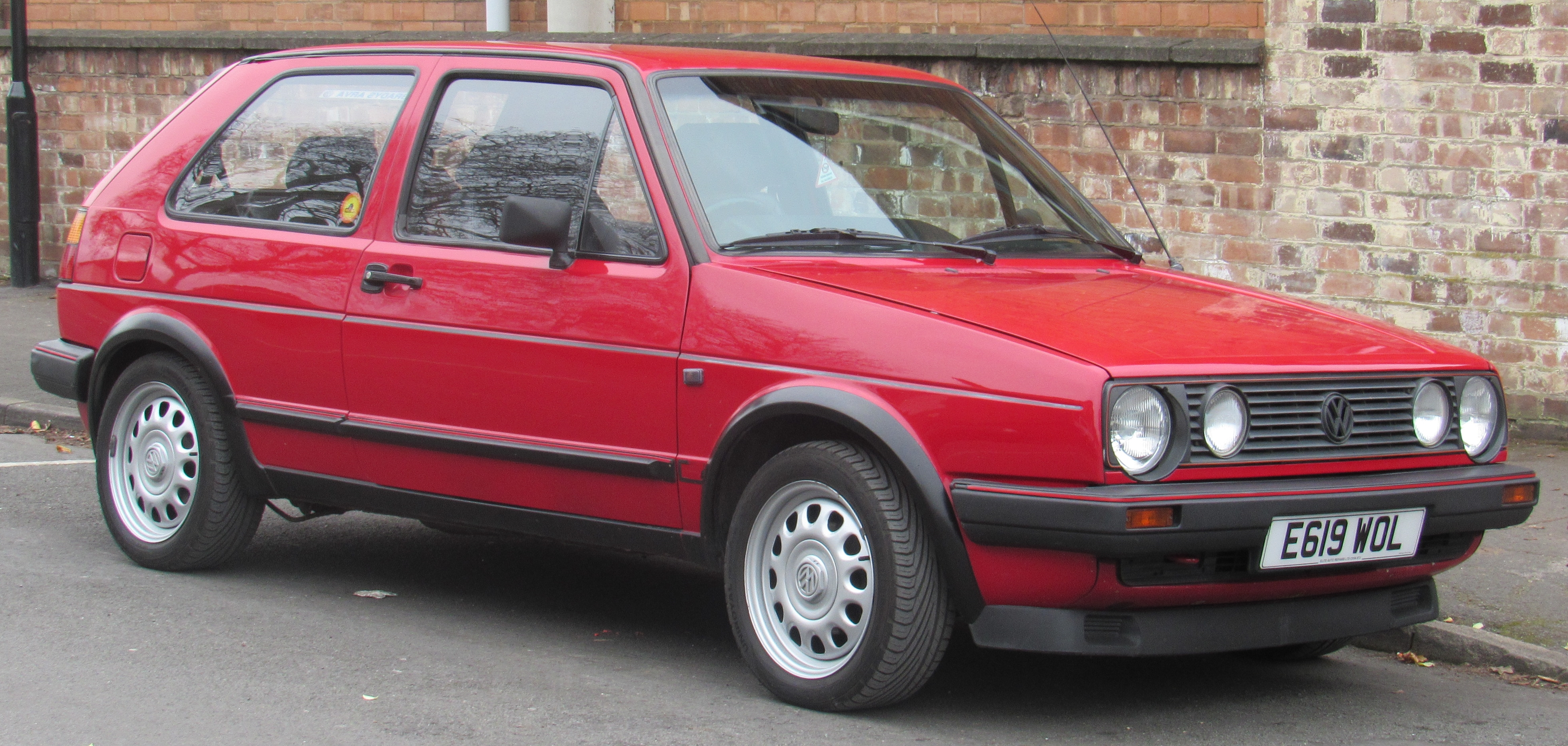 1987 Volkswagen Golf GTi 1.8 Front Taken in Leamington Spa